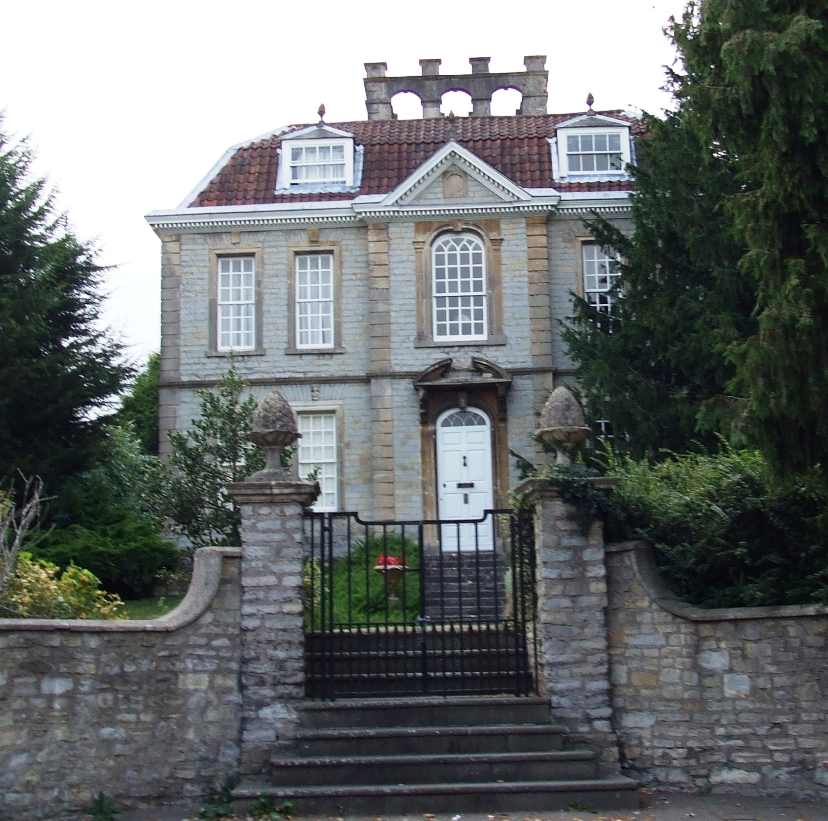 Bishopsworth Manor, Bristol